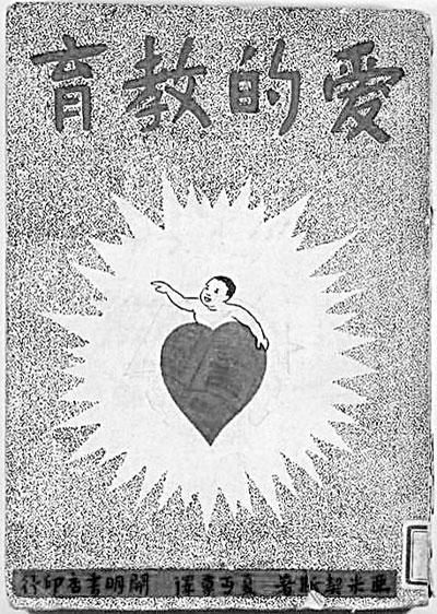 Heart (Cuore) translated by Xia Mianzun. 中文（台灣）: 《愛的教育》夏丏尊譯本，開明書店印行。